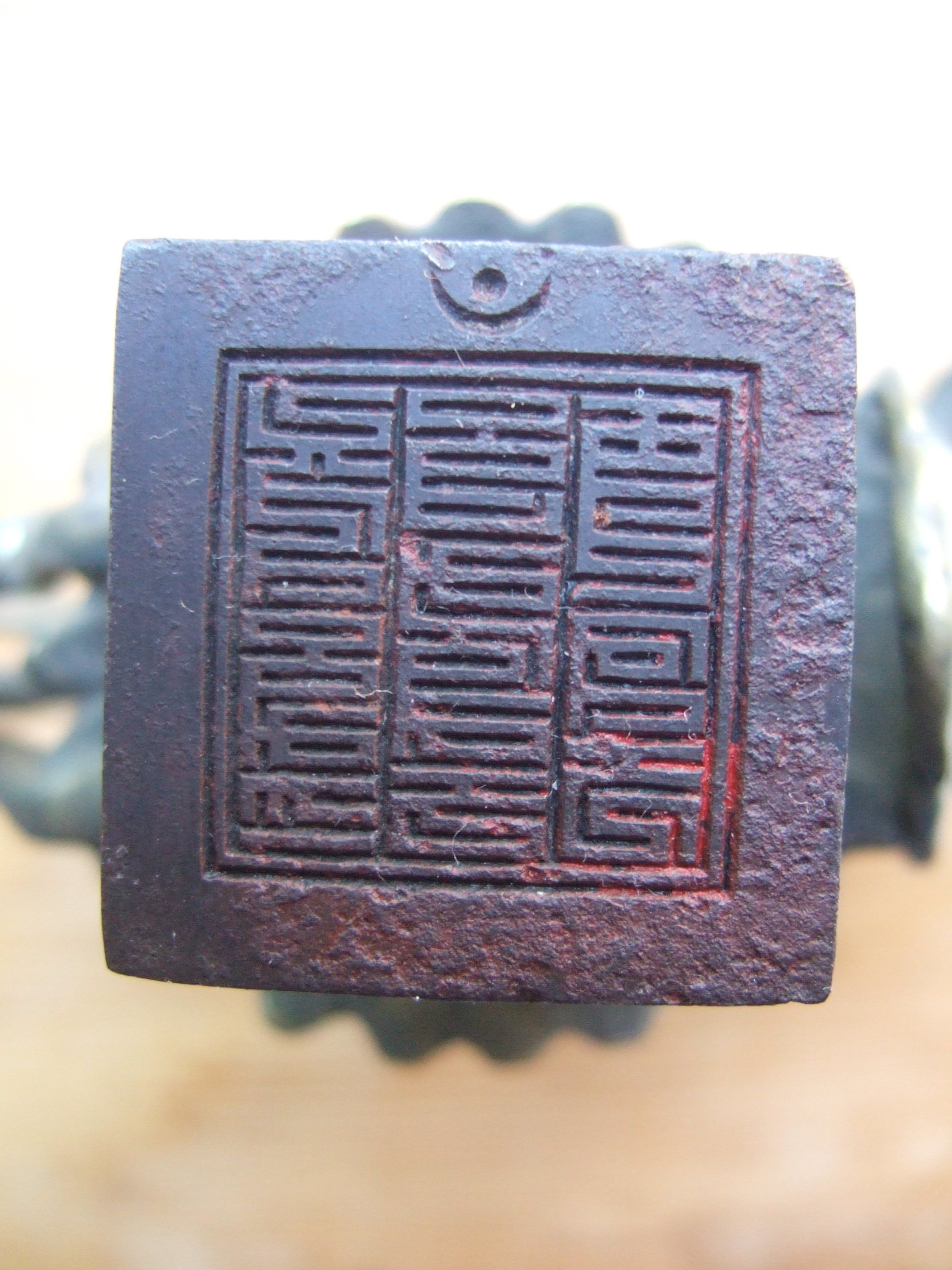 Tibetan seal with inscription on 'Phags pa (seal script), no. 2